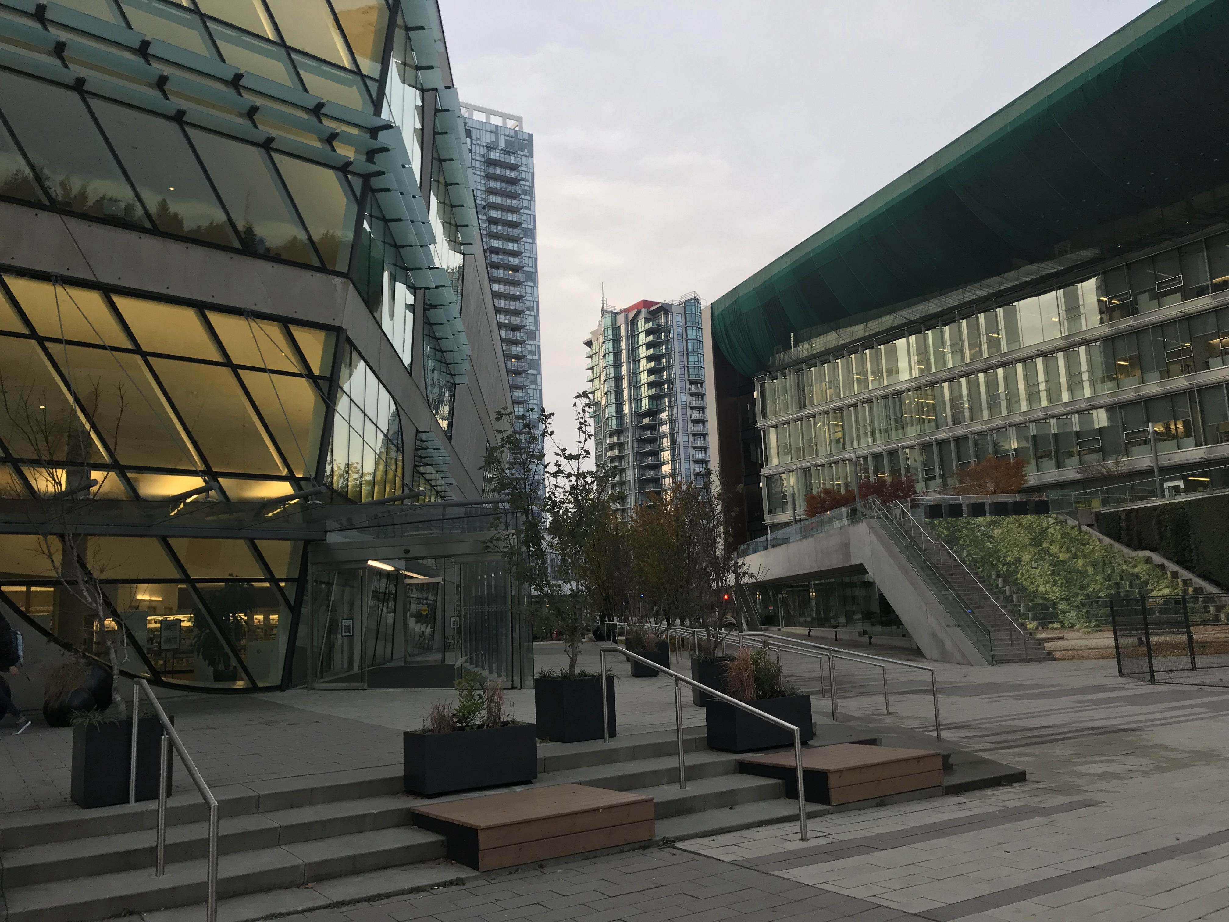 Surrey Central skytrain station article